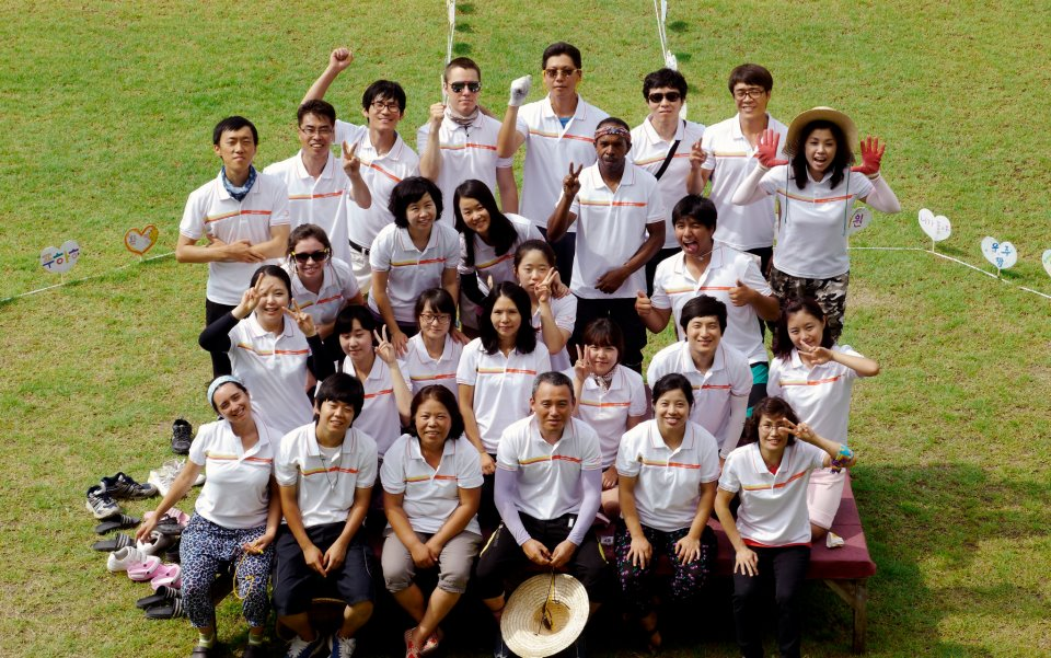 Volunteers(Maum meditation practitioners) for Maum Meditation Youth Camp Summer 2012